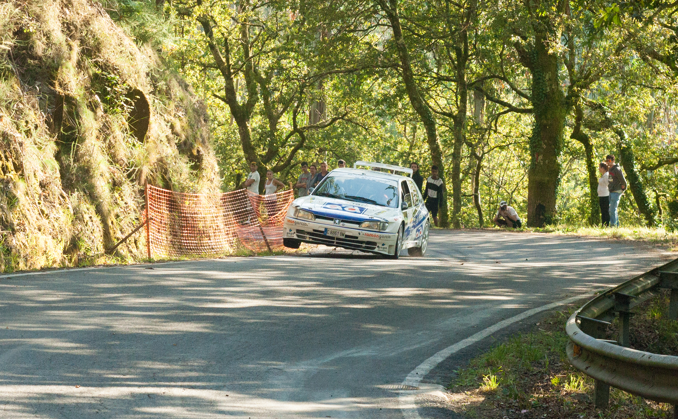 Peugeot 306 MAXI